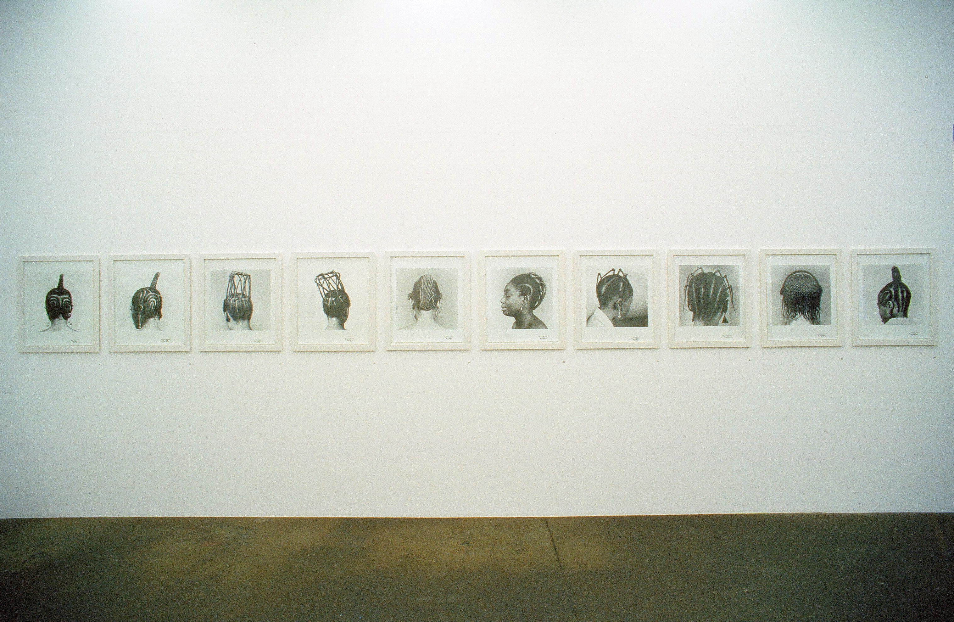 Original tiff file, converted by Vincenzo Abagnale in jpg.